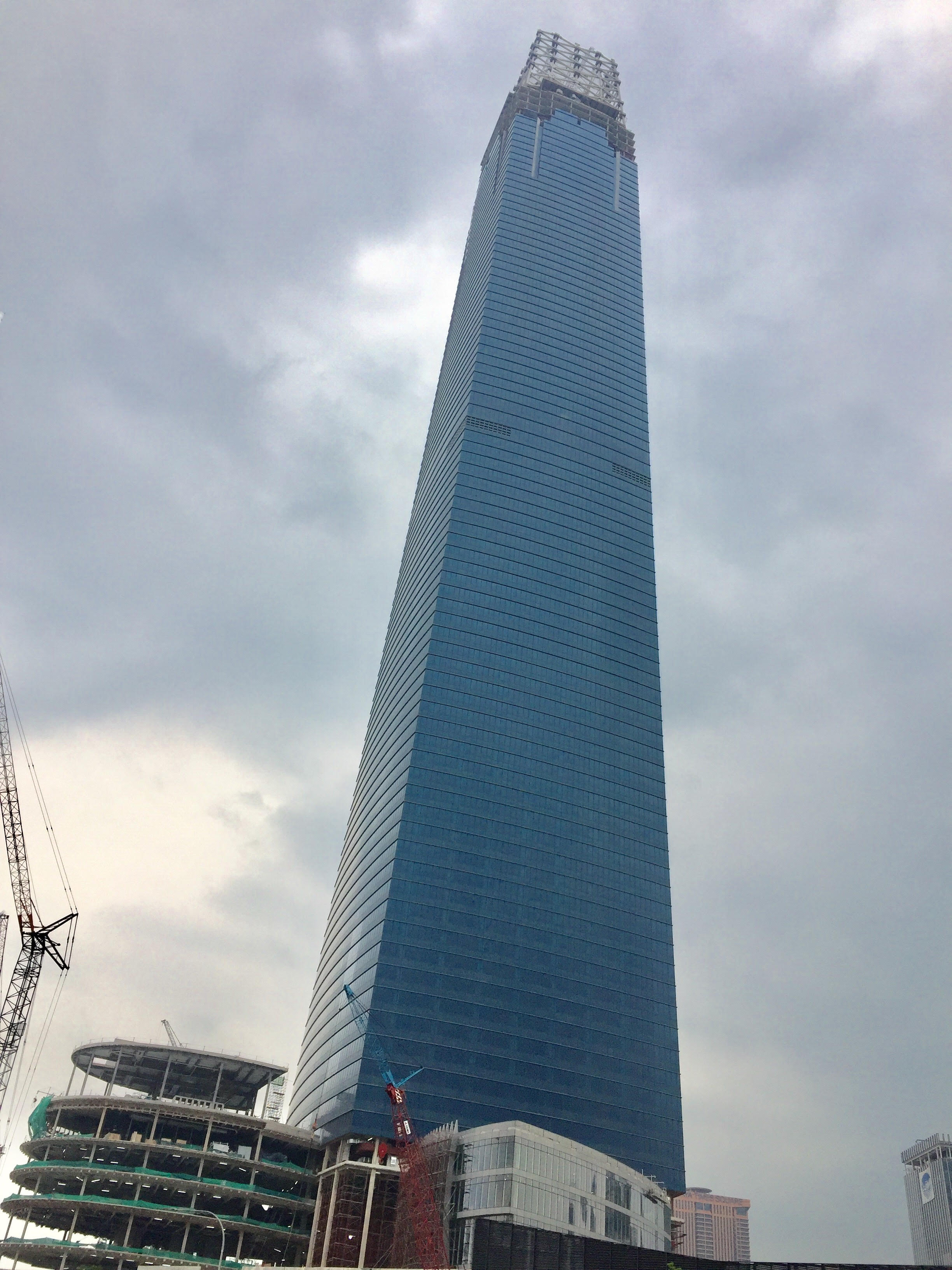 latest photo